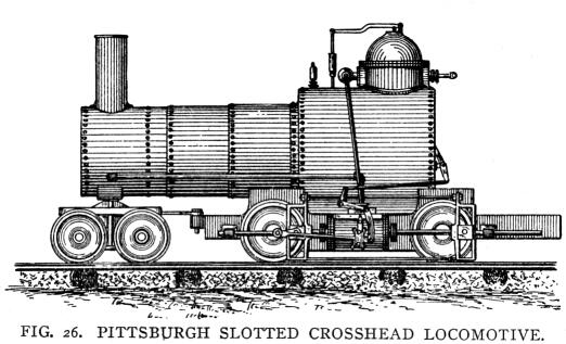 Curiosities of Locomotive Design PITTSBURGH